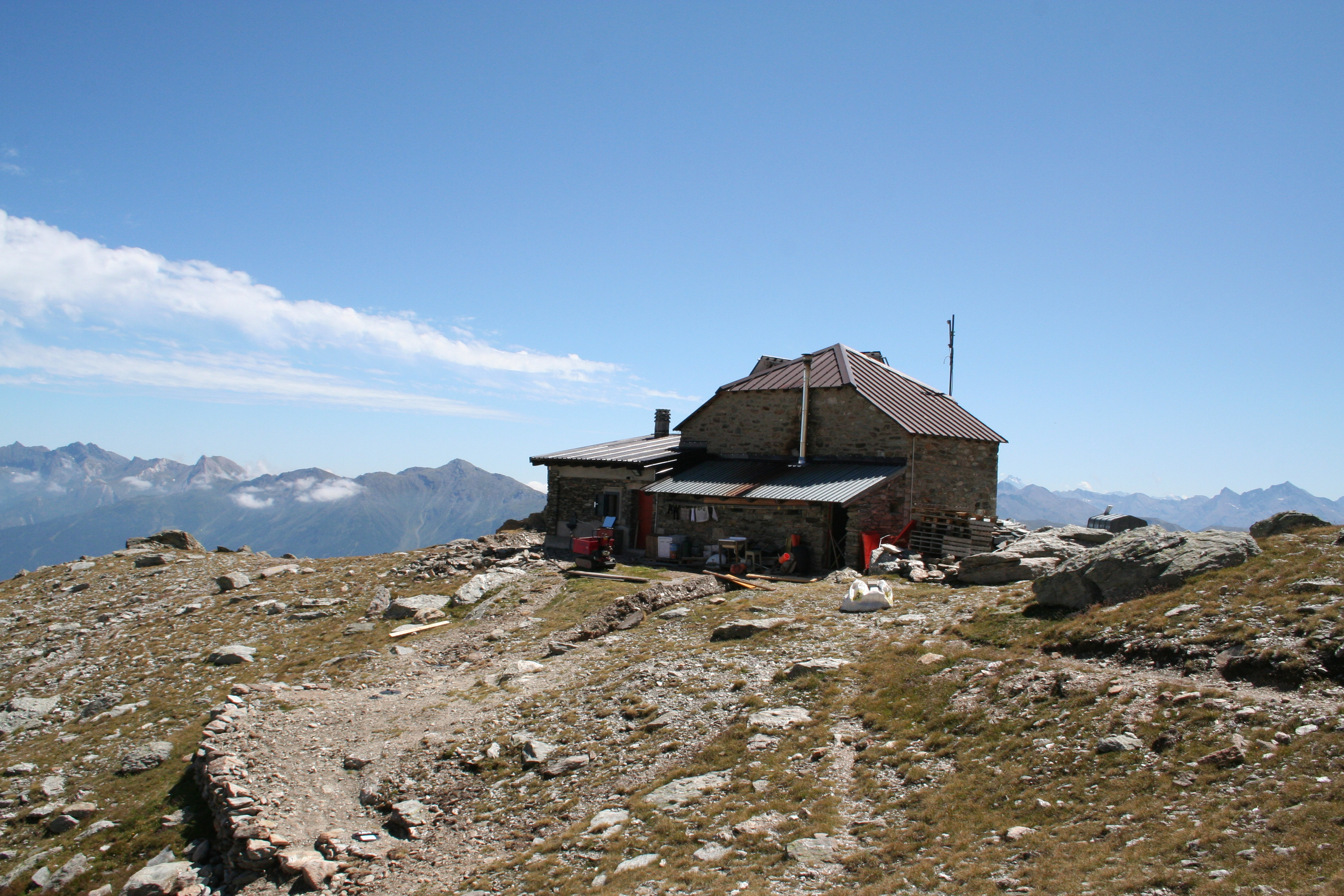 Luigi Vaccarone's refuge during the last works of redevelopment